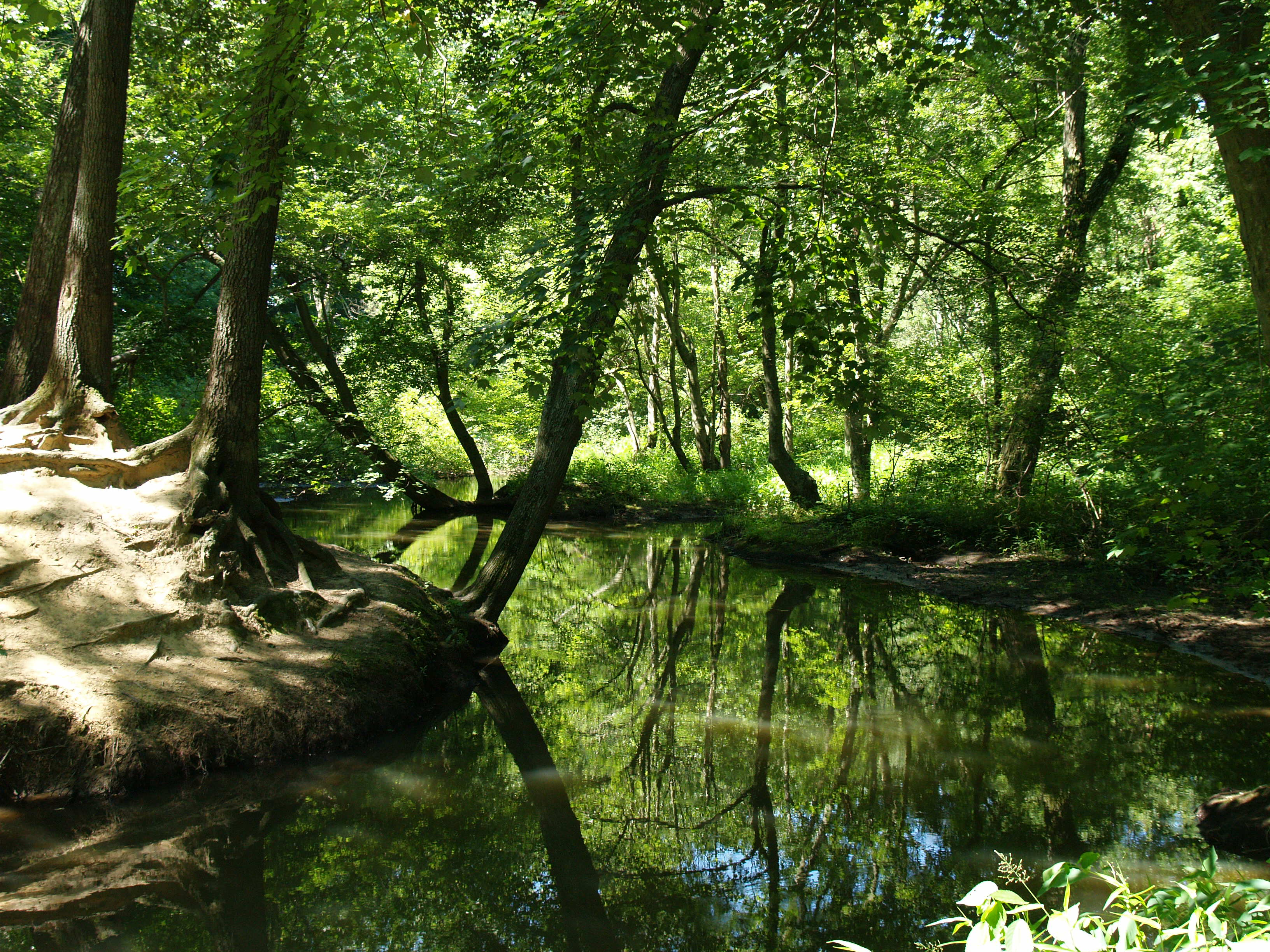 Isaac Branch at Breaknock Park in Kent County, Delaware.